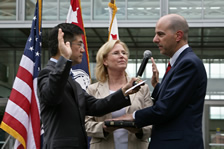 David Kappos being sworn in as Under Secretary of Commerce for Intellectual Property and USPTO Director, by Secretary of Commerce Gary Locke, as Kappos's wife, Leslie, holds the bible, August 13, 2009. Photo from United States Patent and Trademark Office website. Also used on US Department of Commerce website, Author: United States Department of Commerce